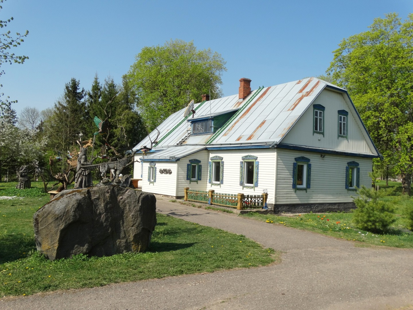 Krakės, Kėdainiai district, Lithuania